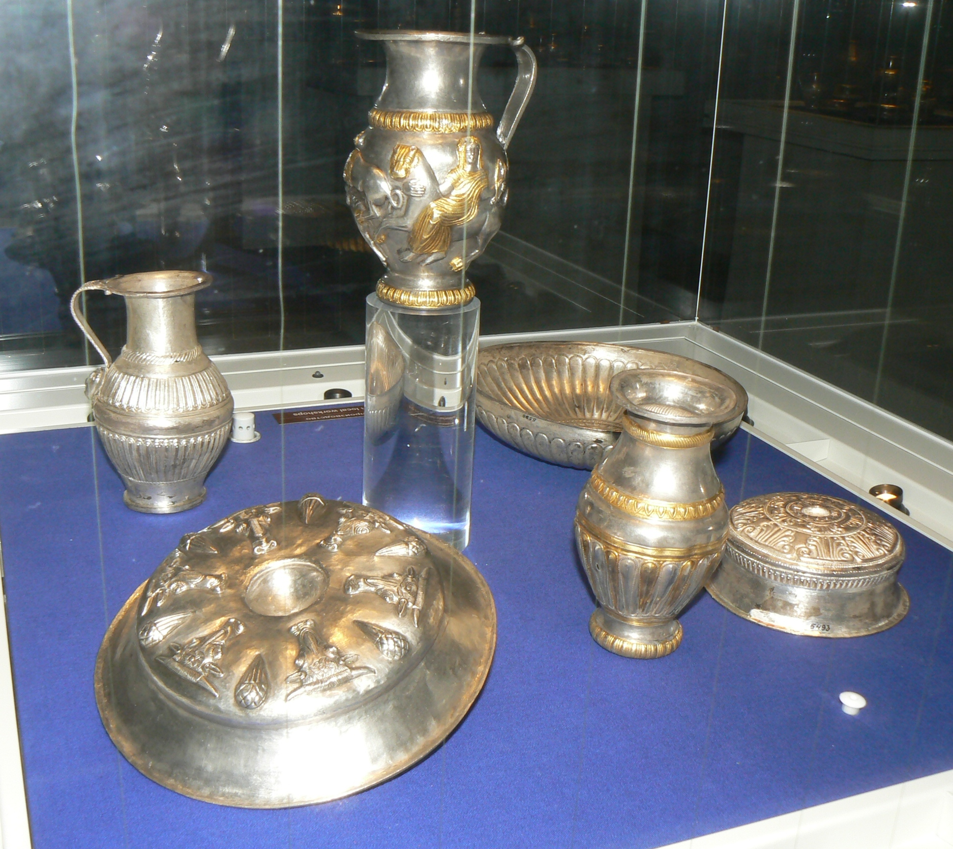 Vessels from the Rogozen treasure, exhibited in the Regional history museum and art gallery of Vratsa, Bulgaria